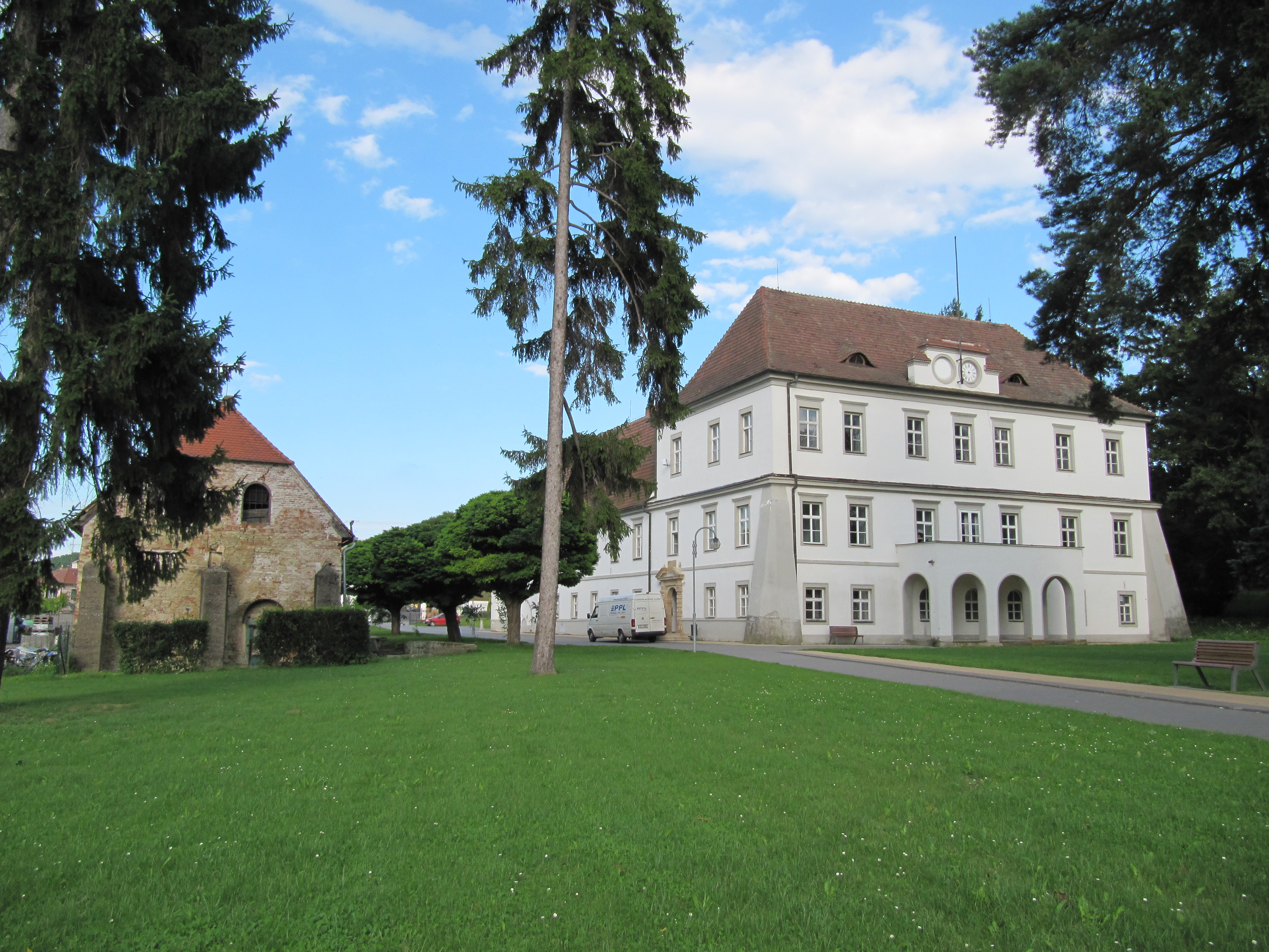 Březolupy in Uherské Hradiště District, Czech Republic. Castle.